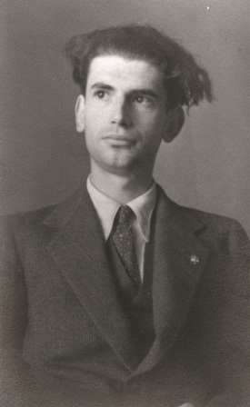 Mario Bonazzi all'età di 25 anni.